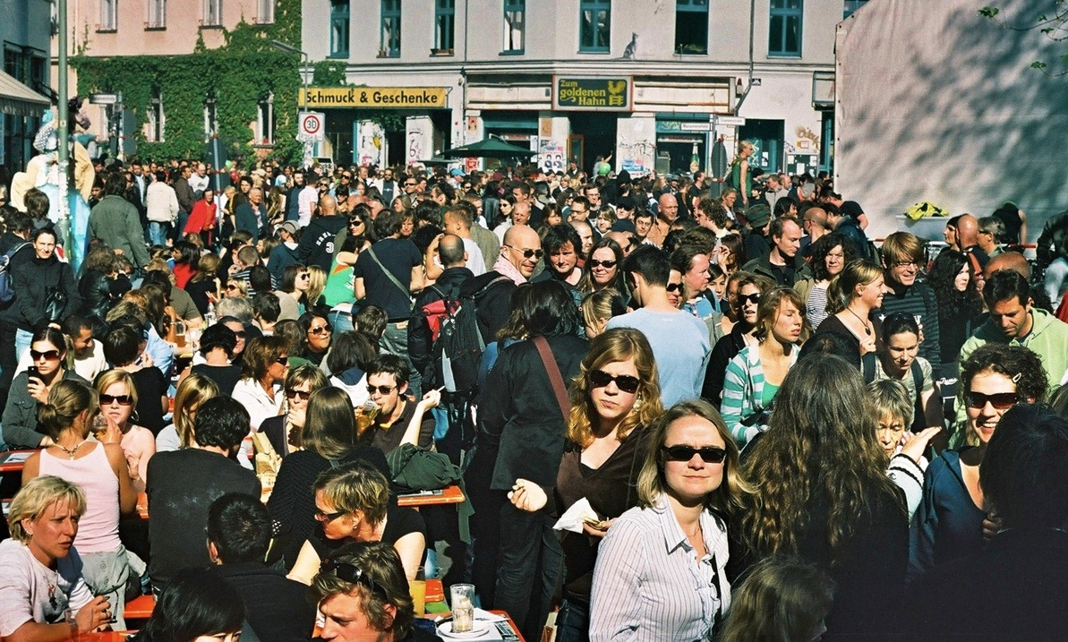 Crowd in Berlin, Kreuzberg, Heinrichplatz (52.50048, 13.42296), view: facing east, on the left: Mariannenstrasse going north